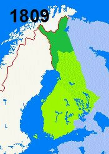 Border changes in Finland 1809